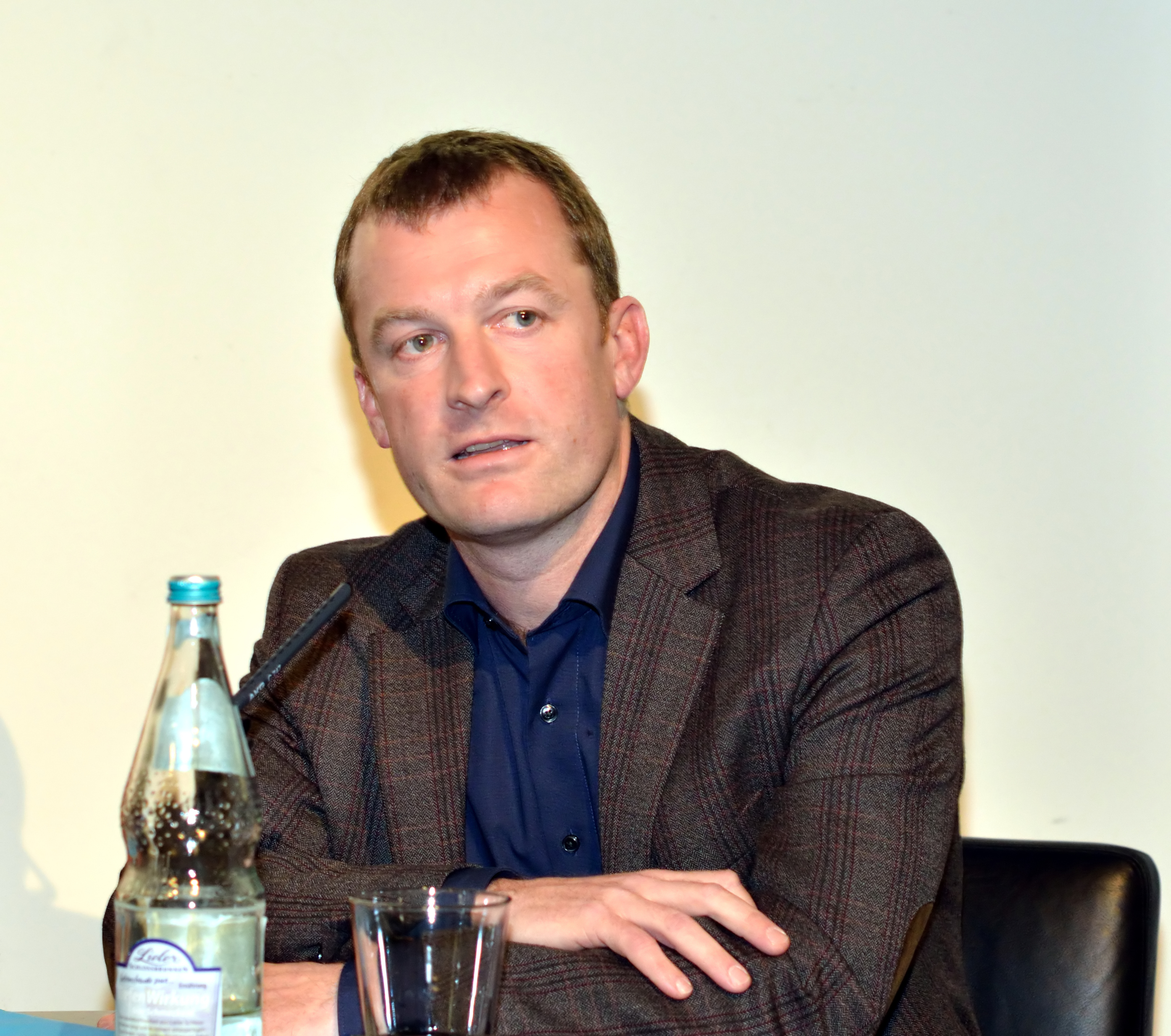 Ulrich Lusche: Member of Landtag of Baden-Württemberg